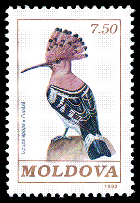 Stamp of Moldova